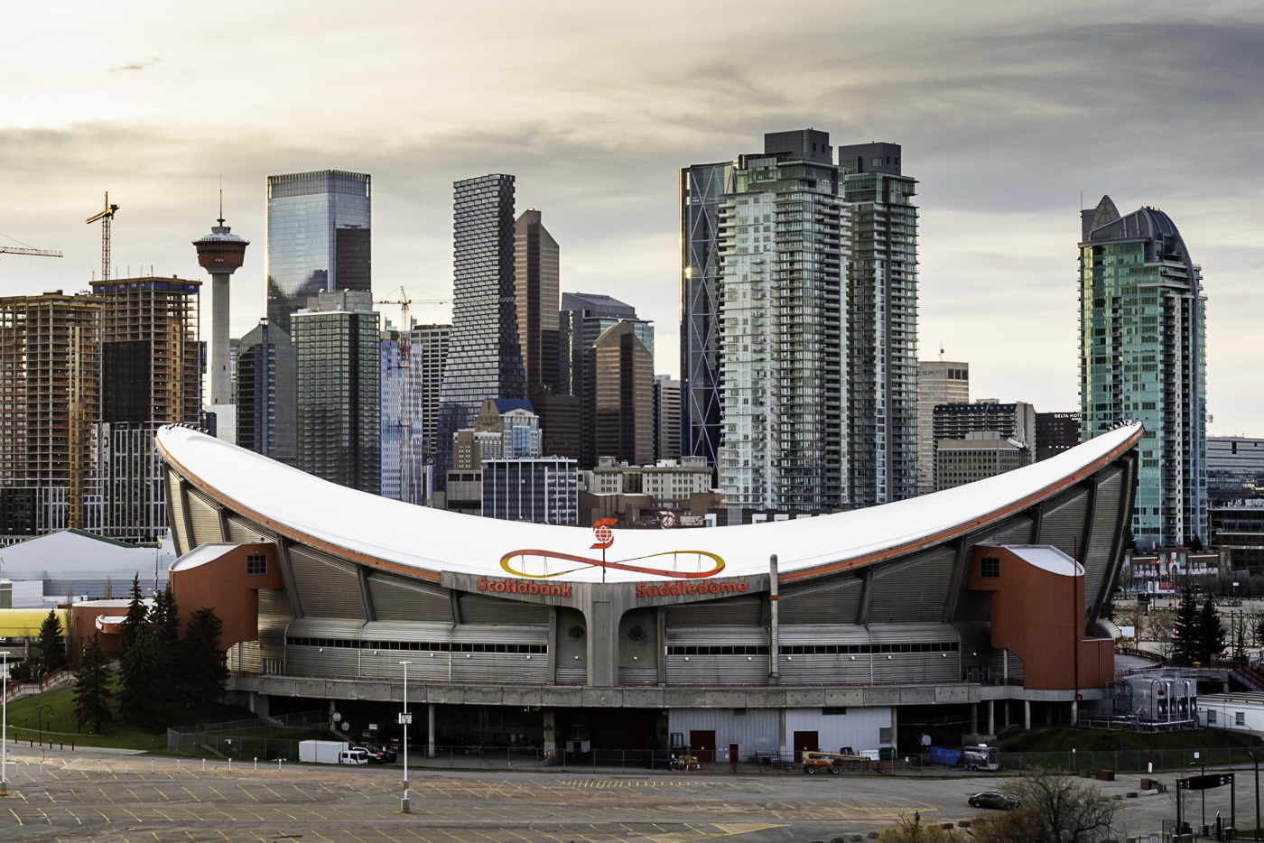 Scotiabank Saddledome in downtown Calgary.